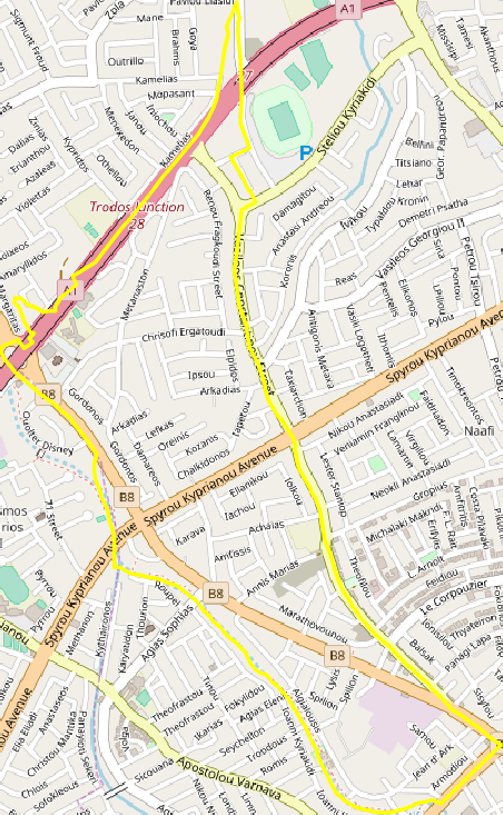 Map of Agios Georgios.